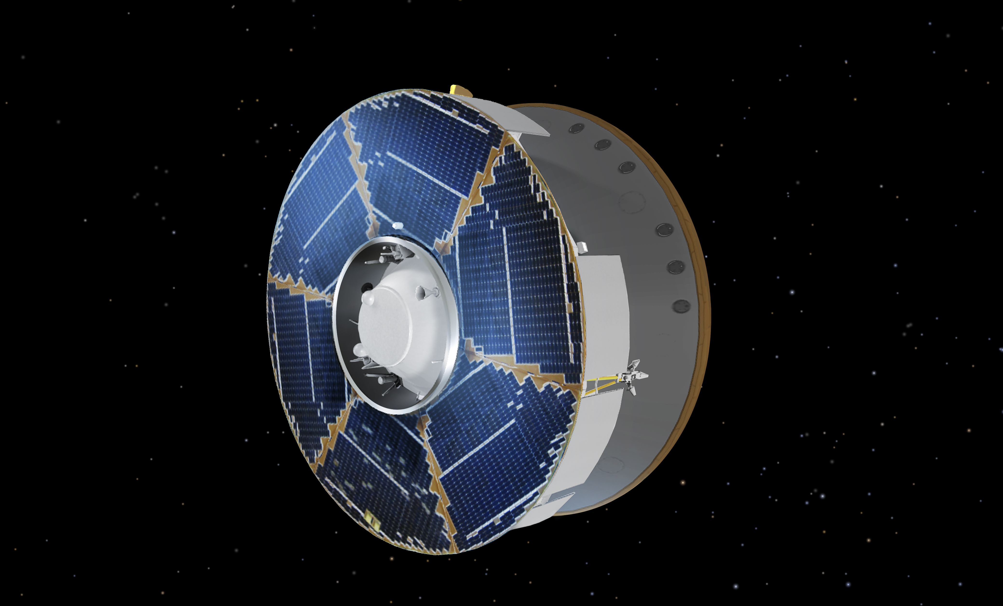 Illustration of the Mars 2020 spacecraft, encapsulated in its protective aeroshell and en route to Mars.